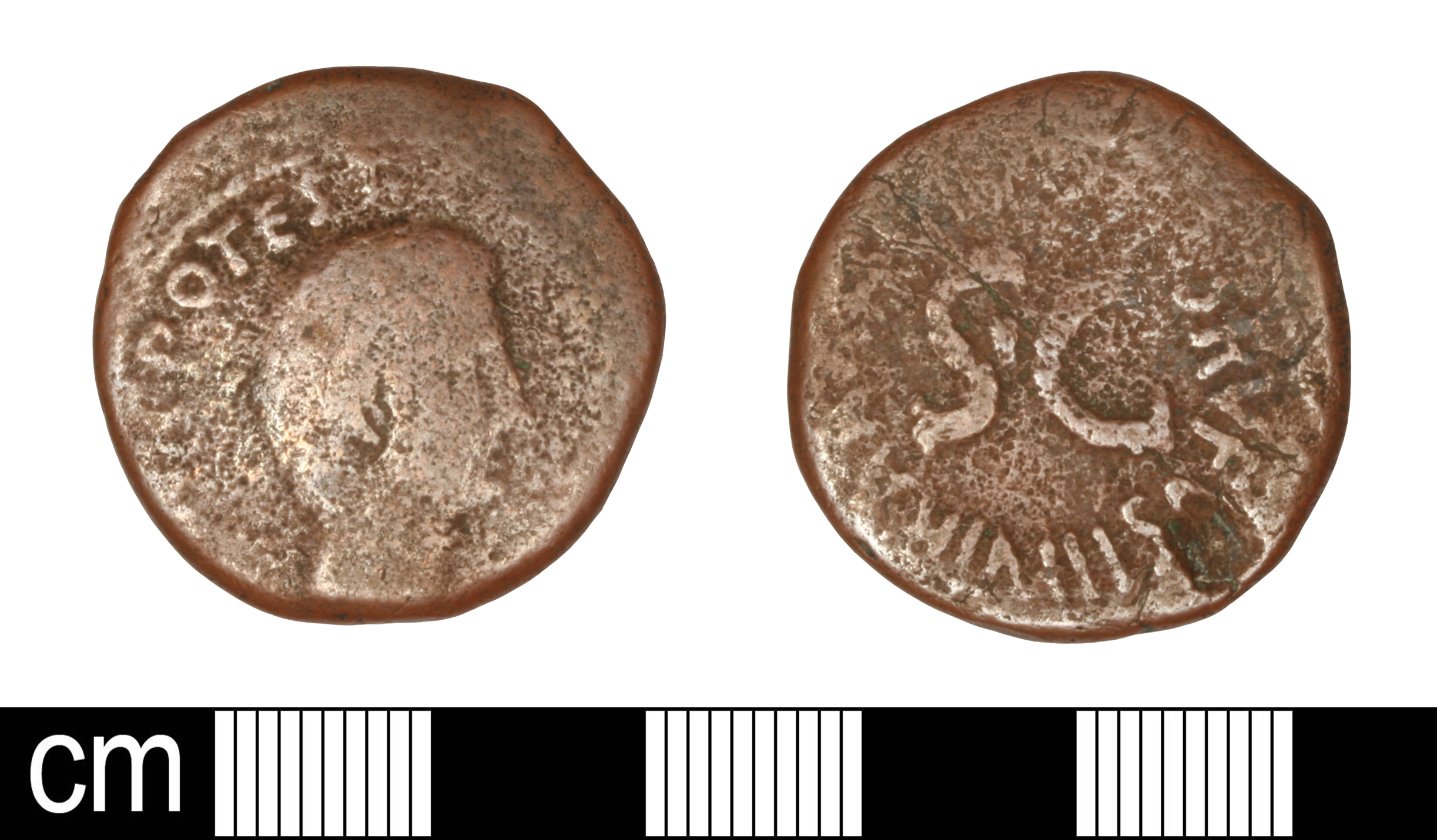 A copper alloy dupondius or as of Augustus dating to 15 BC (Reece Period 1). C PLOTIVS RVFVS IIIVIR AAAFF reverse type depicting the legend around S C. Mint of Rome. RIC I (rev.ed.), p.71, no. 388 or 389. Diameter: 25.73mm, Thickness: 2.19mm, Weight: 7.93g